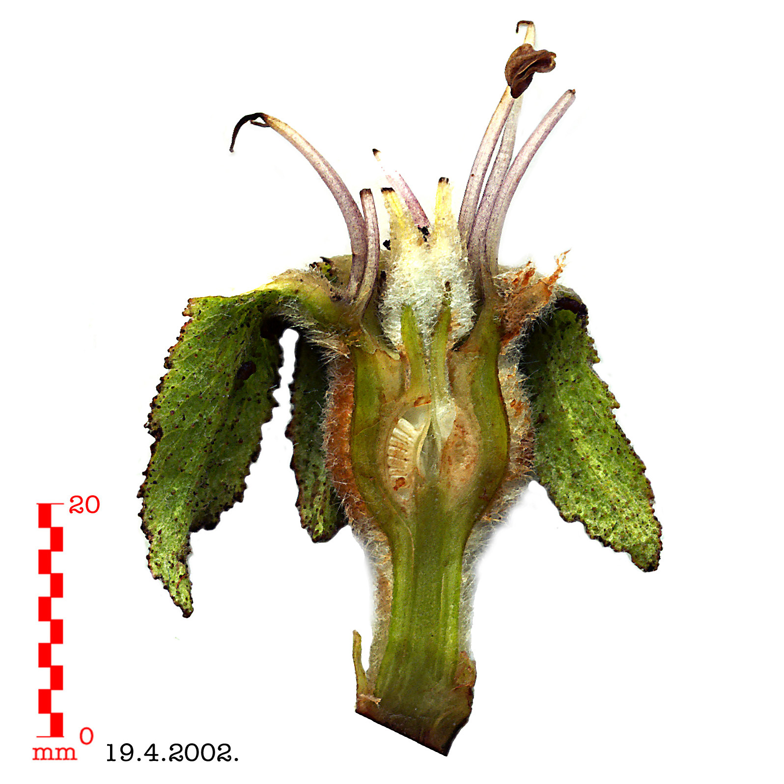 Longitudinal cut through flower of Cydonia oblonga (without corolla)